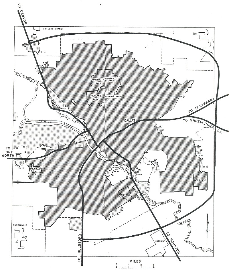 Interstates in today's terms I-20 (later moved south) I-30 I-35E I-45 I-635